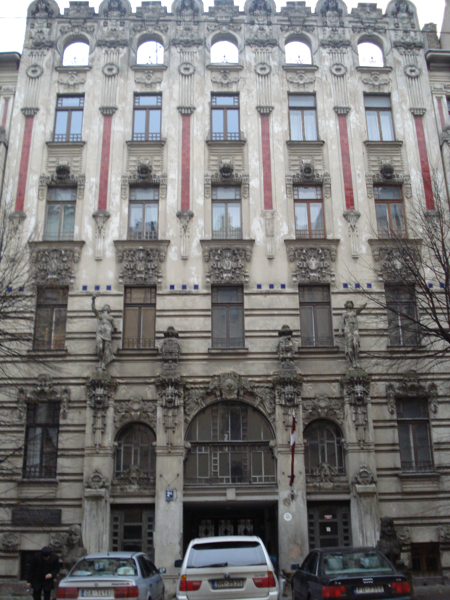 Art Nouveau House in Riga, Alberta ielā 2a. 1906. Architect Mihail Eisenstein. Main facade